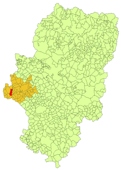 Modified from File:Aragon municipalities.png created by User